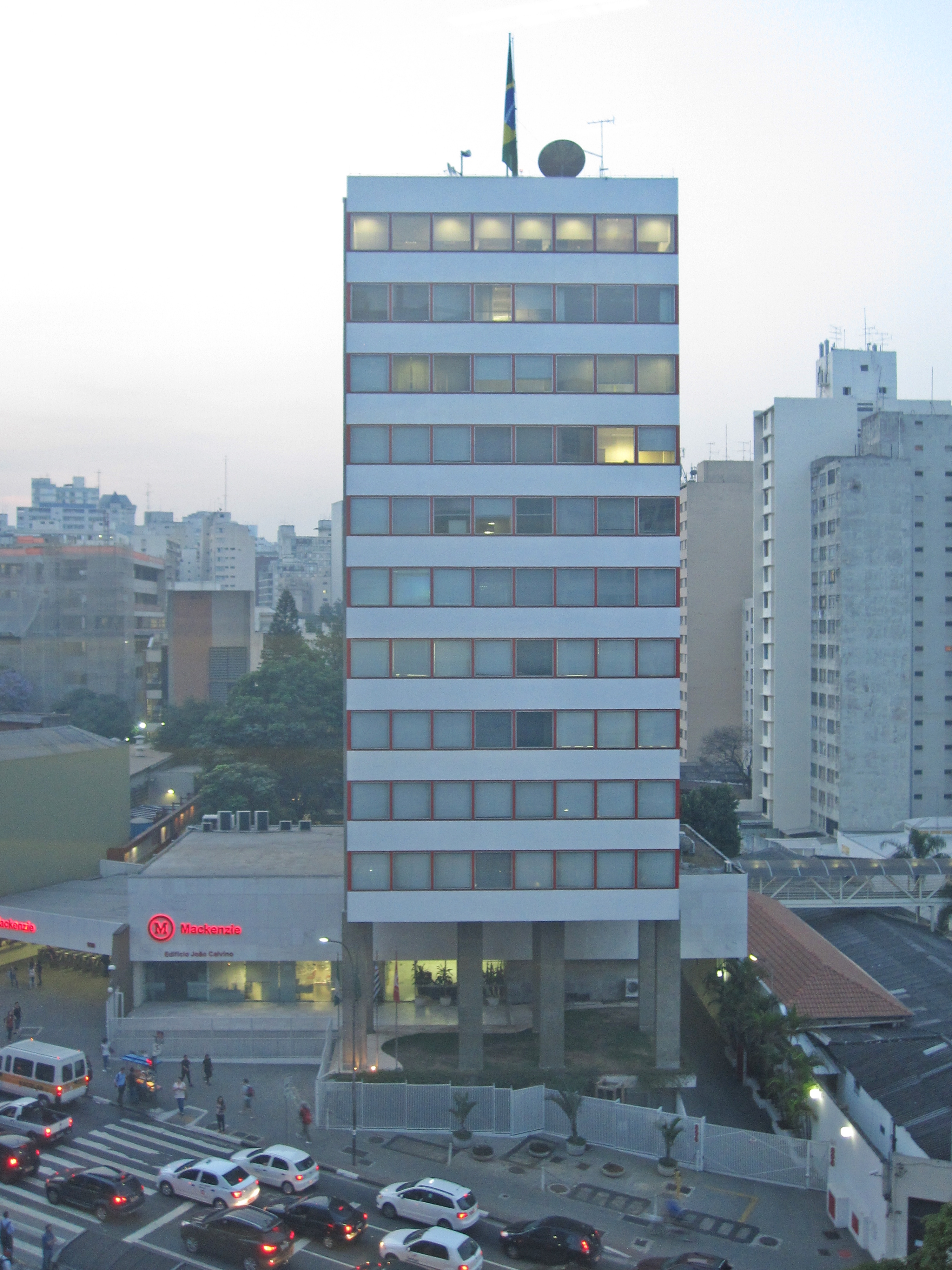 João Calvino Building in São Paulo, São Paulo, Brazil. The building hosts the post-graduation facilities of Mackenzie Presbyterian University.